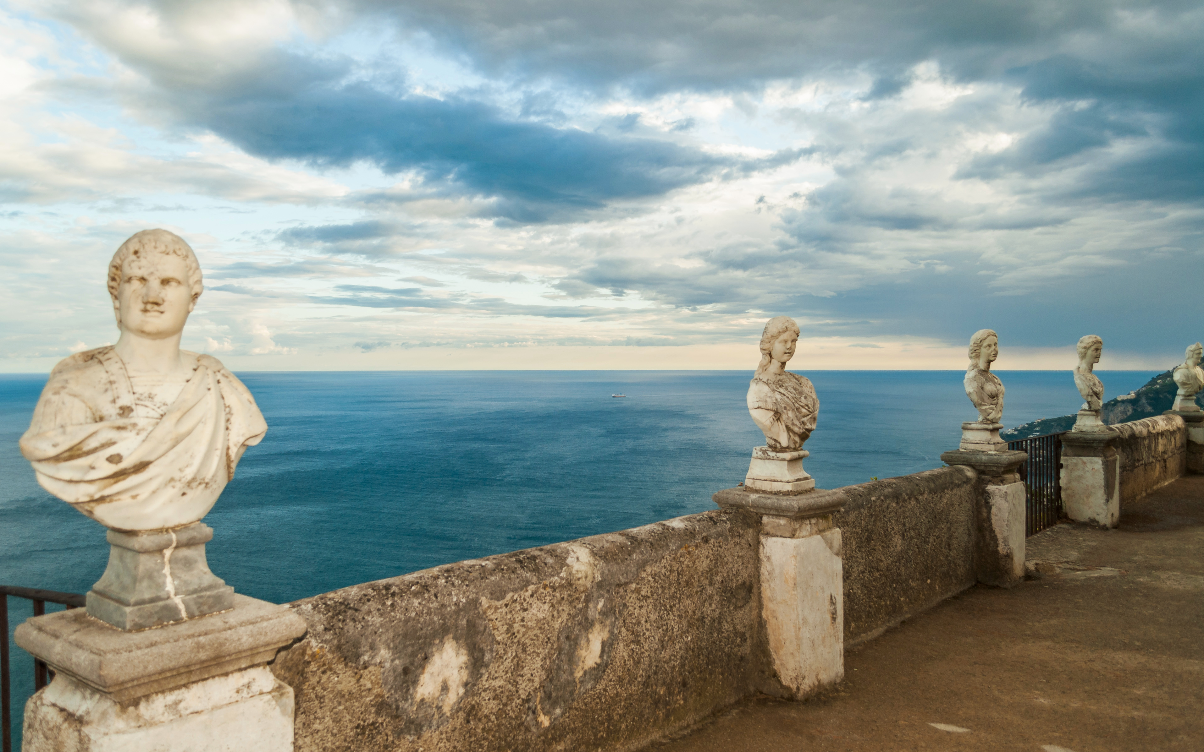 Terace of Infinity, Villa Cimbrone in Ravello on Amalfi Coast